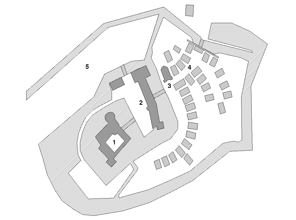 plan of castle Raesfeld about 1729, based on work by P. Friedrich in A. Friedrich "Schloß Raesfeld." Raesfeld 1990